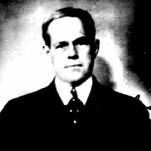 U.S. Passport photograph of Rolla Bigelow (Robert Lavante Bigelow)